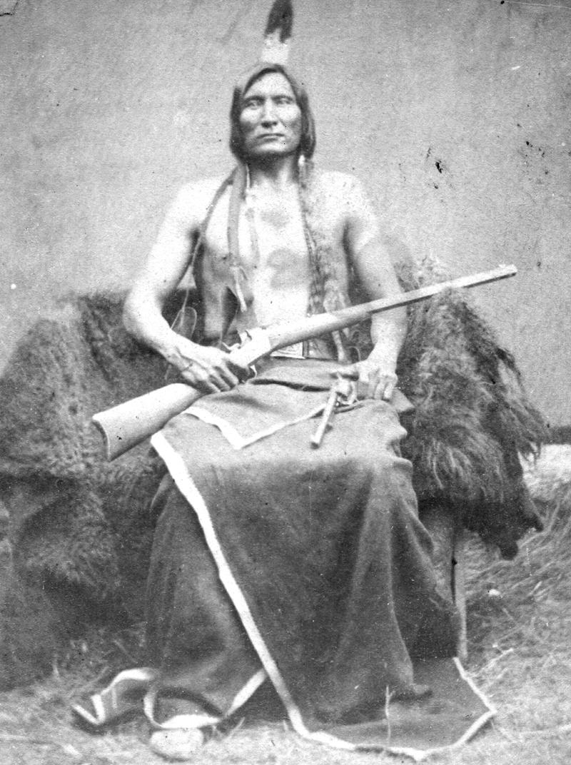 Touch the Clouds (c. 1838-1905) of the Miniconjou Teton Lakota Sioux.